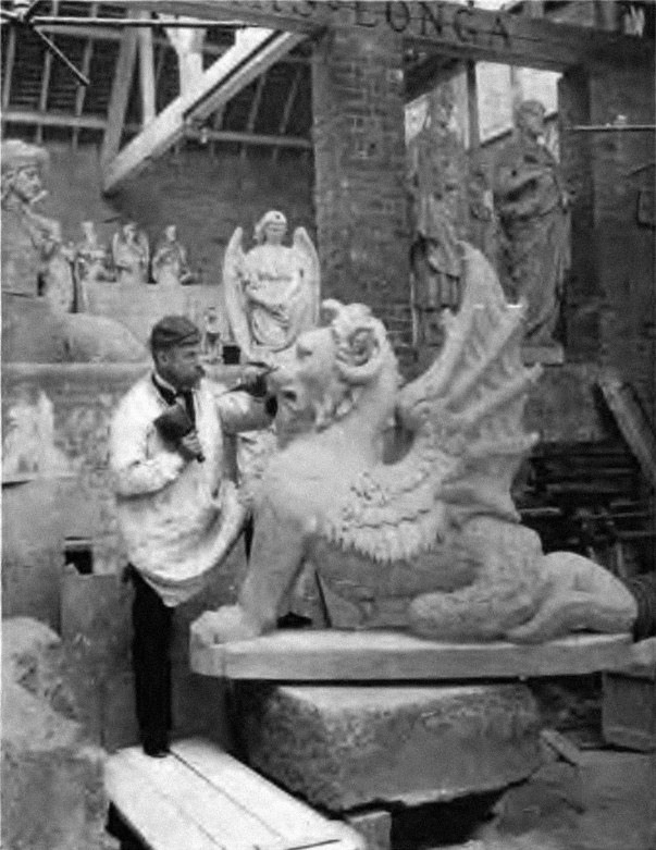 Harry Hems at work in his studio in Longbrook Street in Exeter, Devon, England, on 12 June 1896. He is carving a grotesque for one of the pedestals at the bottom of the grand staircase in the Municipal Corporation Building, Mumbai, India.